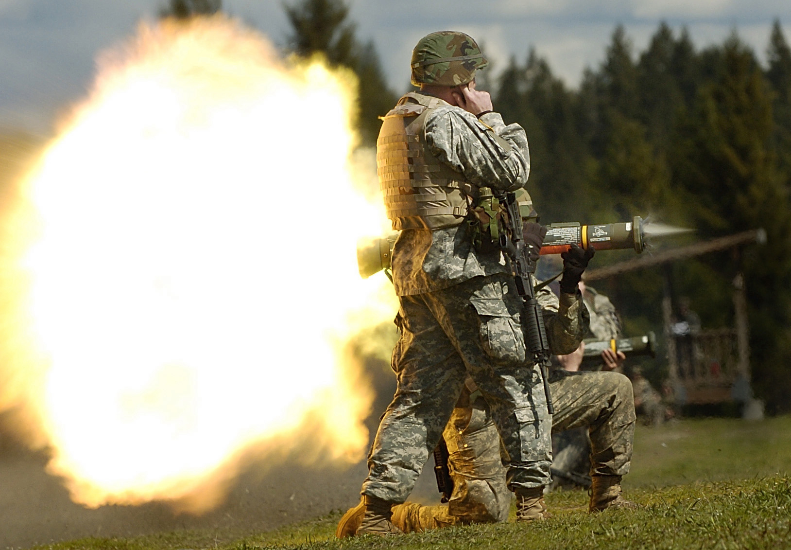 A Soldier from 2-1 Inf., 5th Bde., 2nd Inf. Div. fires an AT4 during training at Range 59.